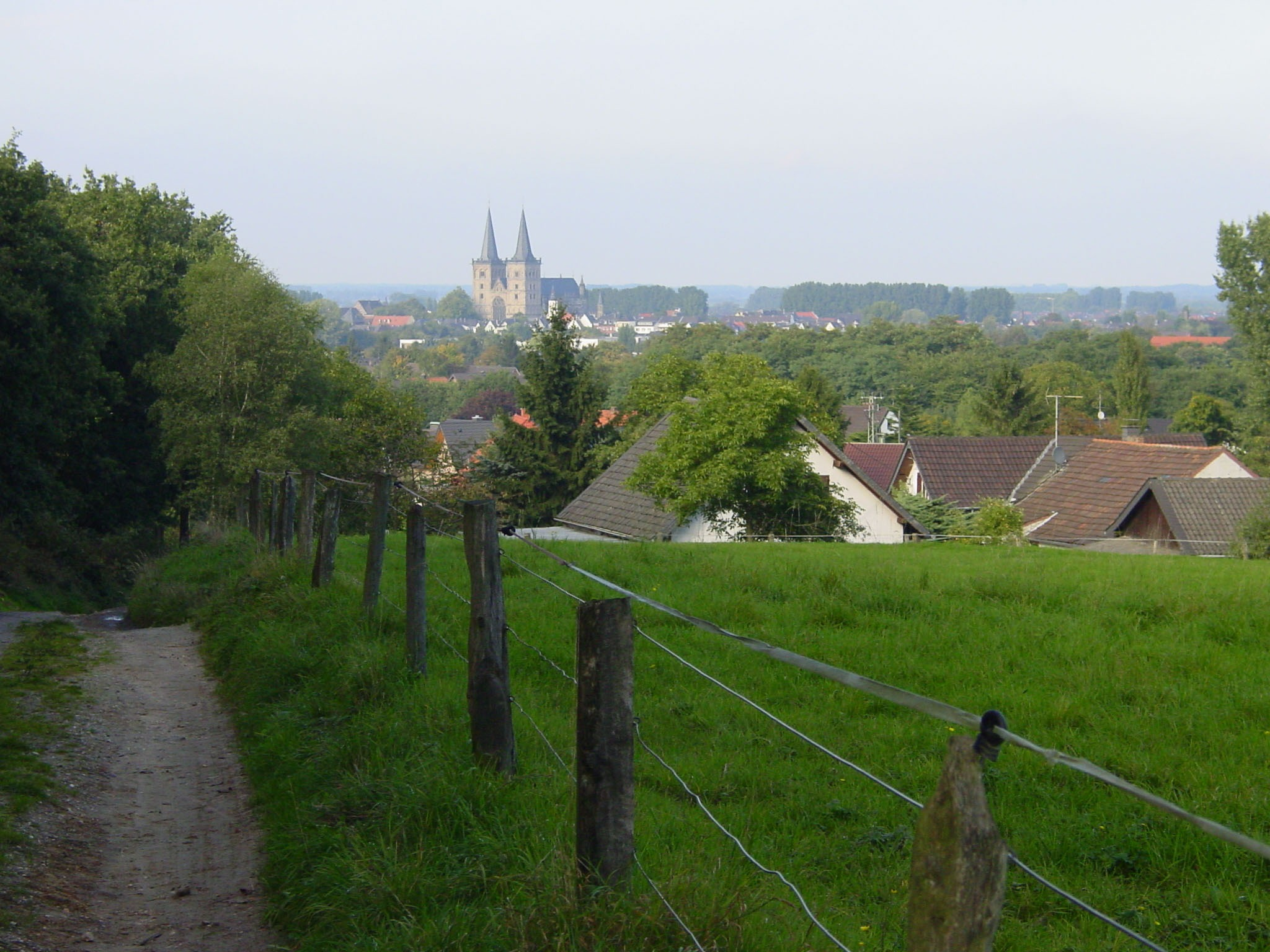 Xanten as seen from the "Hees", Germany